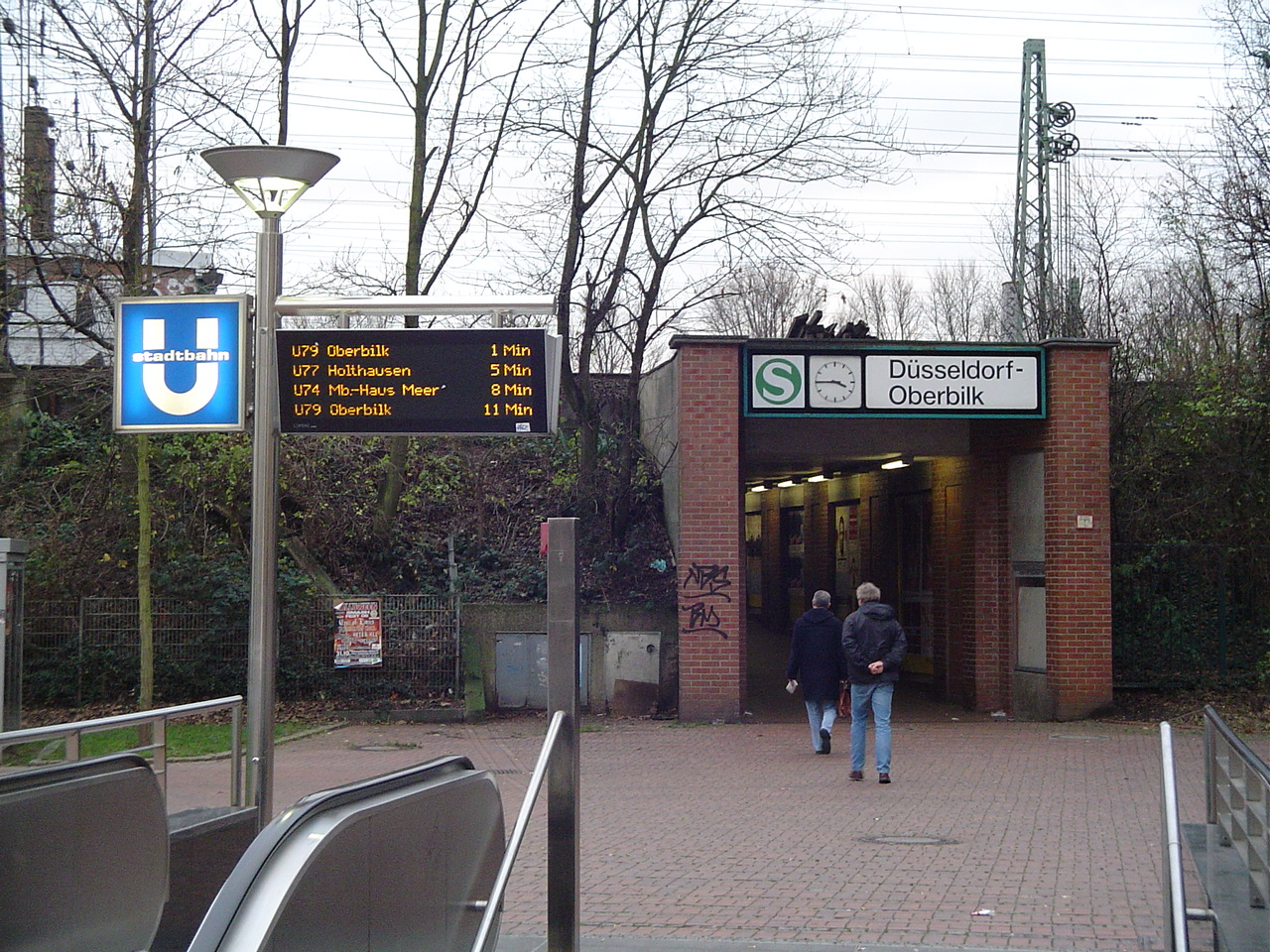 S-Bahn and U-Bahn station in Düsseldorf-Oberbilk, Germany